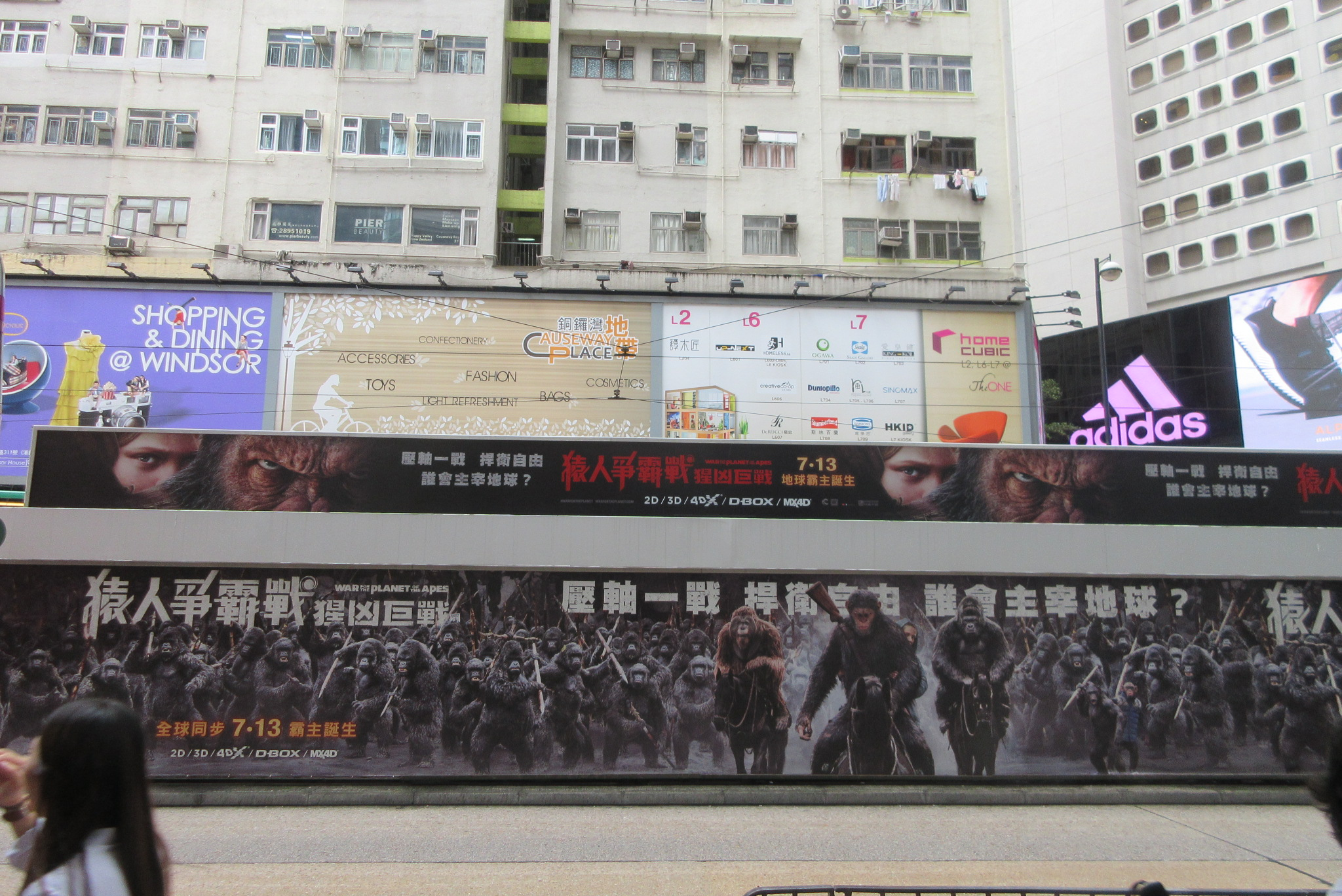 HK CWB 銅鑼灣 Causeway Bay 怡和街 Yee Wo Street tram station outdoor movie ads 猿人爭霸戰 猩凶巨戰 War for the Planet of the Apes July 2017 IX1